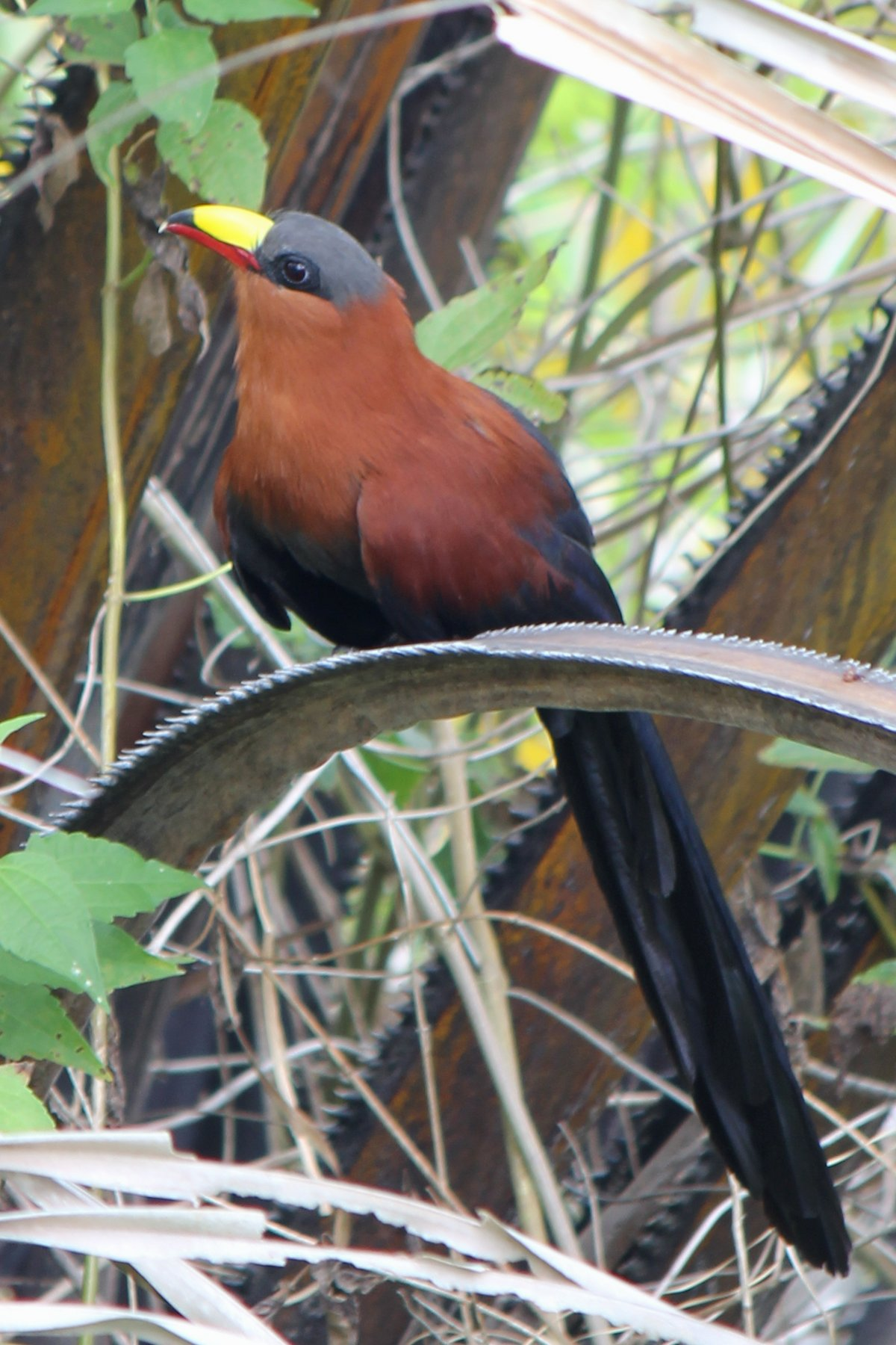 Yellow-billed Malkoha at Manado, Nort Sulawesi